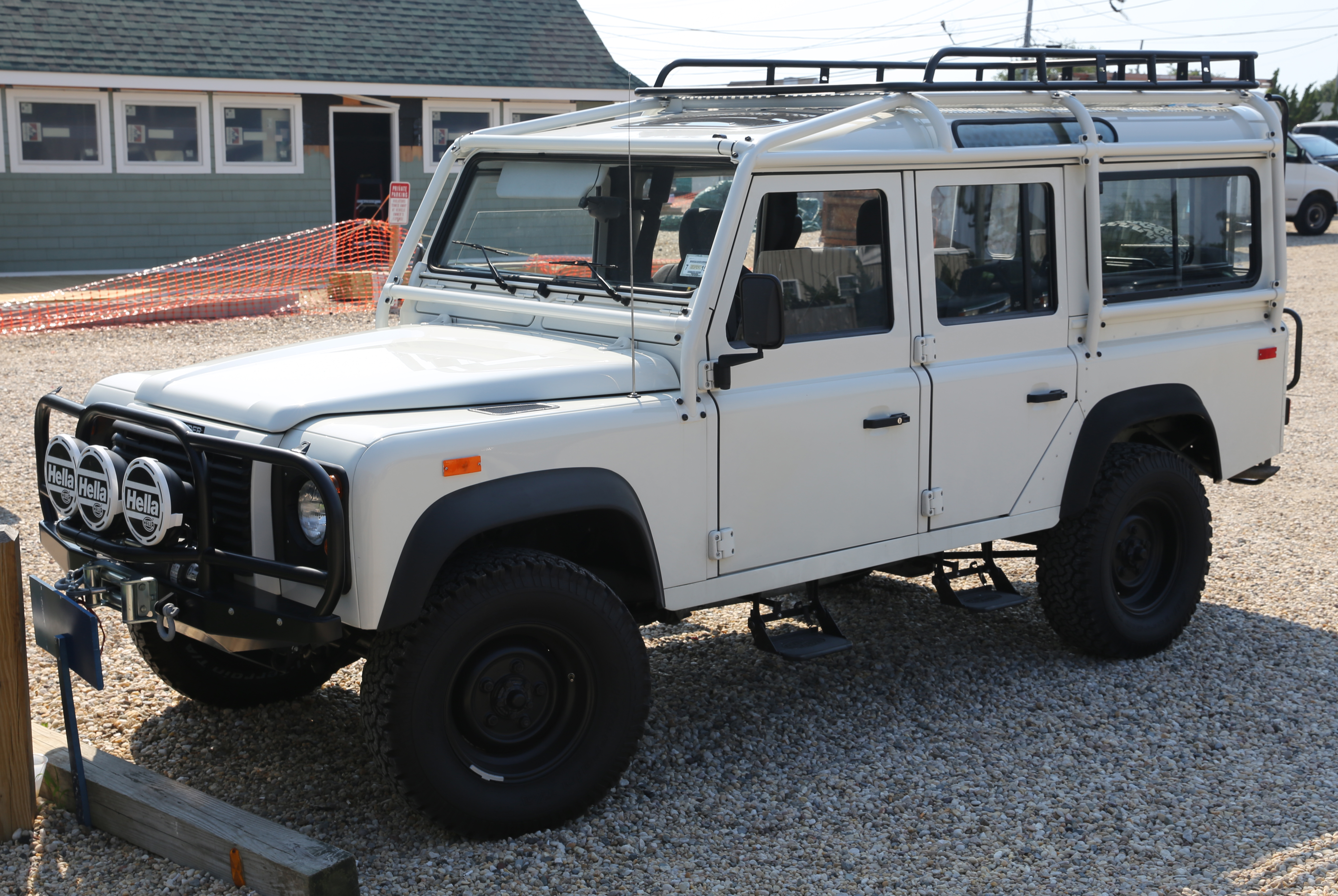 535 of these were built for North America, all but one in Alpine White. In Montauk, Long Island. Looks to be in good nick.